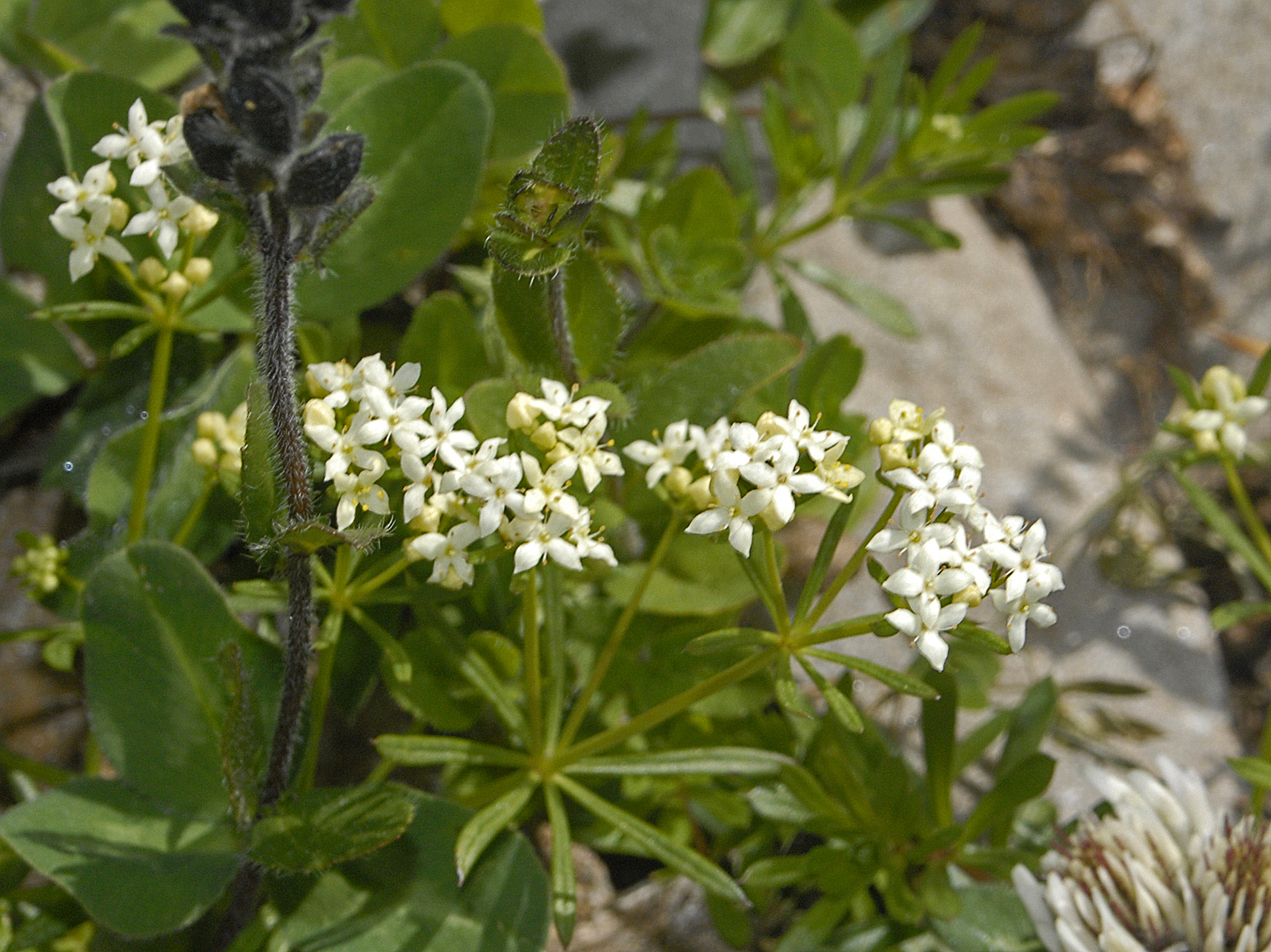 Galium cf. anisophyllon in flower. La Thuile, Aosta, Italy